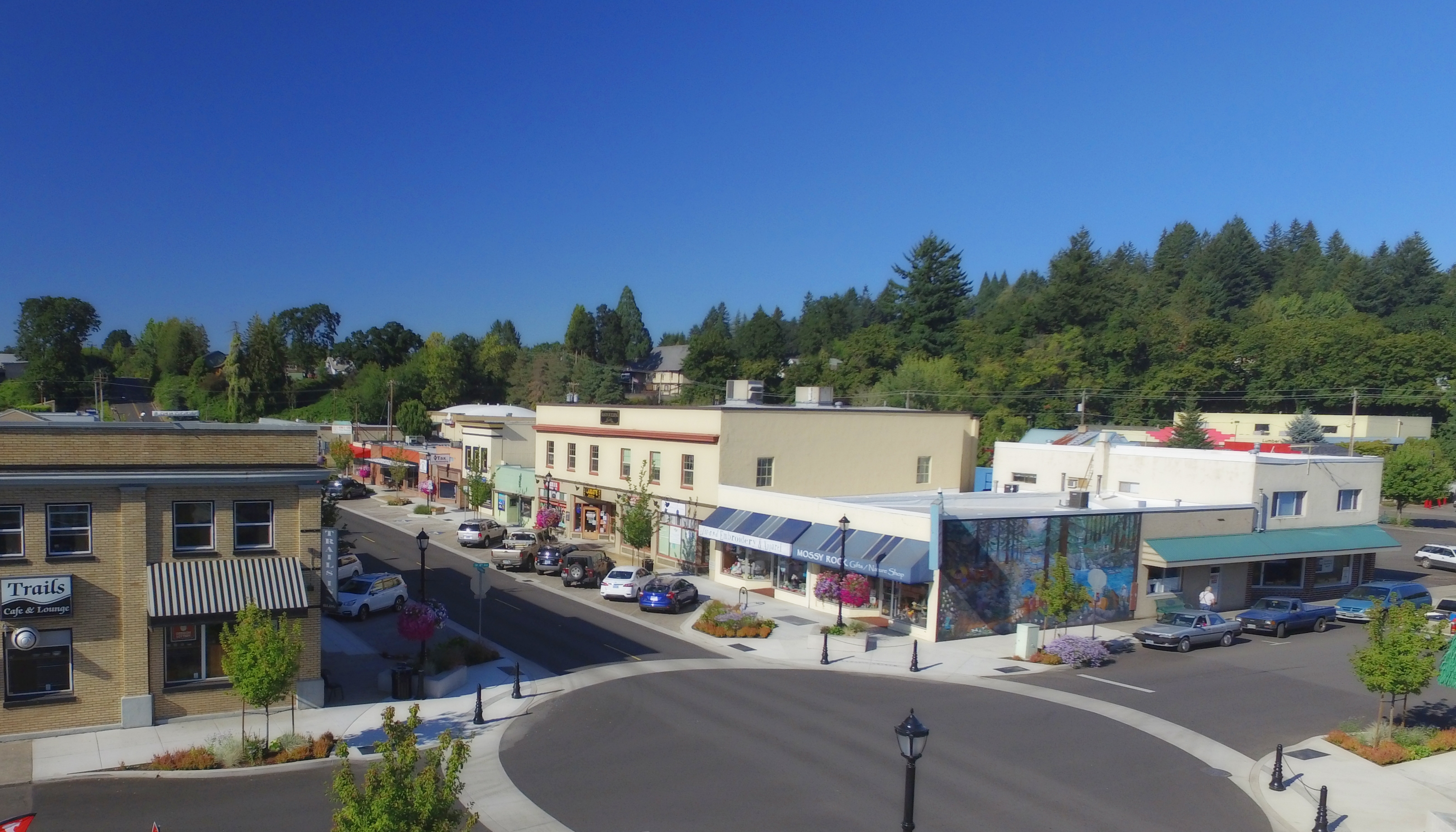 Downtown Estacada Oregon. Historic.